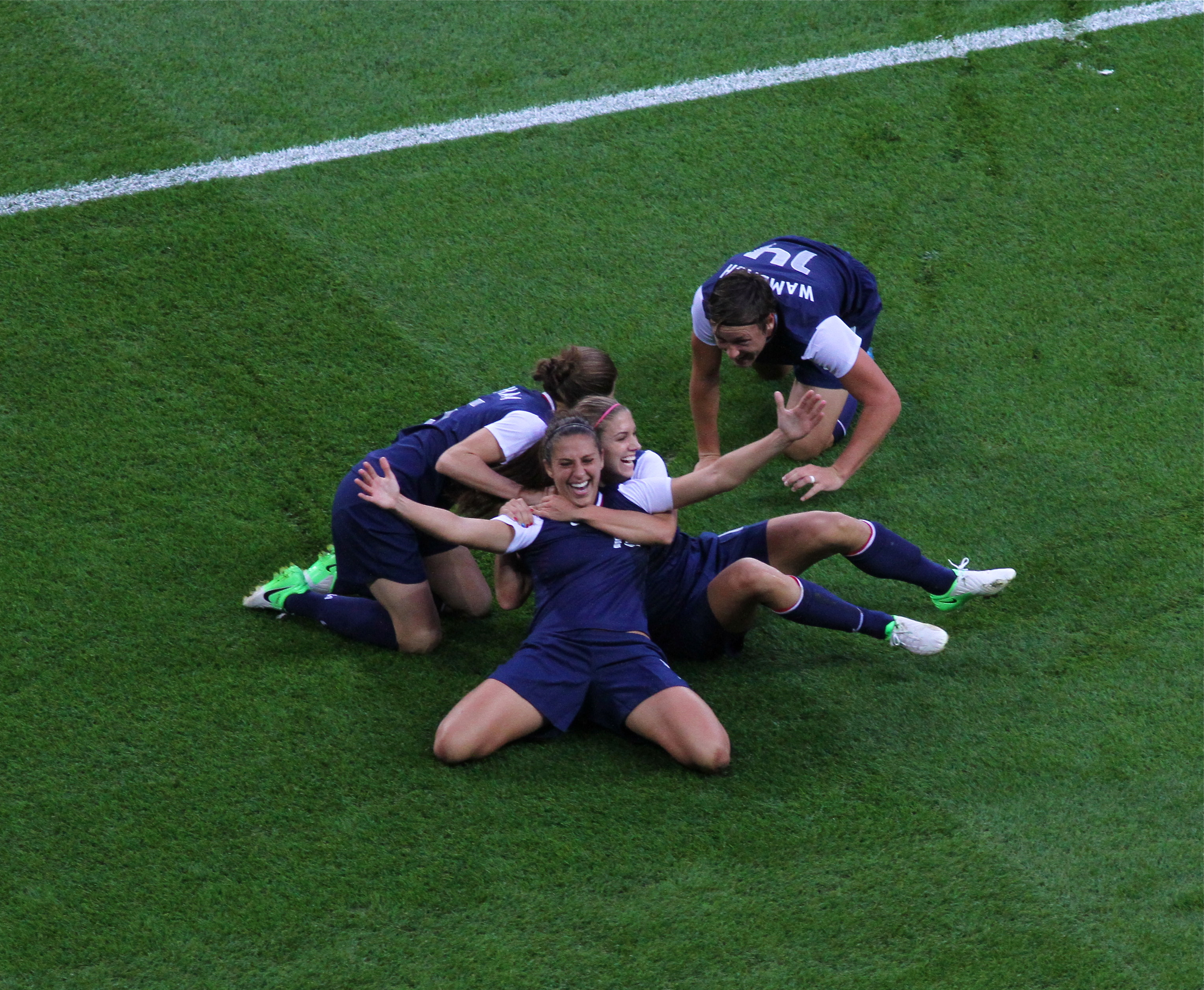 Carli Lloyd of the United States celebrates scoring against Japan